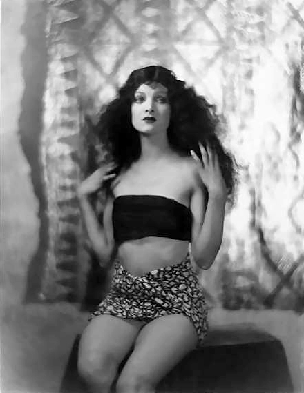 Myrna Loy Original caption: "The exotic beauty Myrna Loy is the half caste girl in Warner Brothers' latest picture Across The Pacific". Film Across The Pacific (1926).